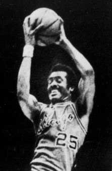 Basketball player Chet Walker